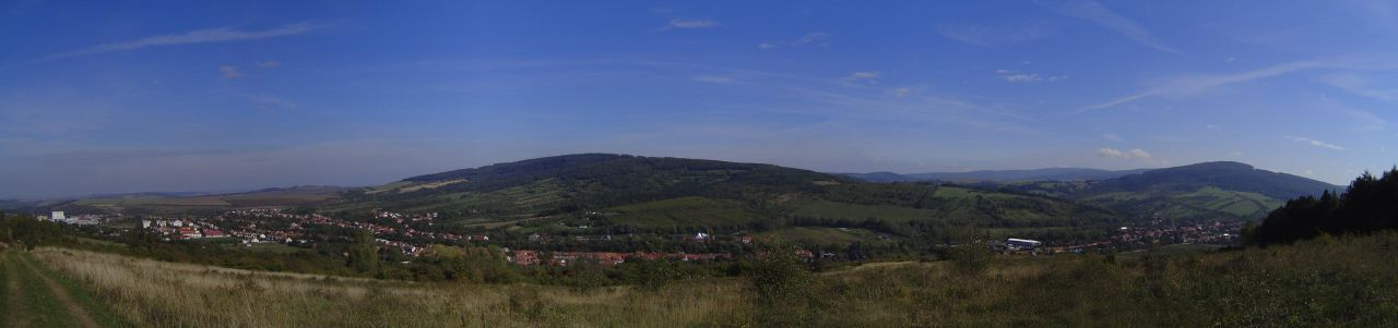 Moravian village Velká nad Veličkou